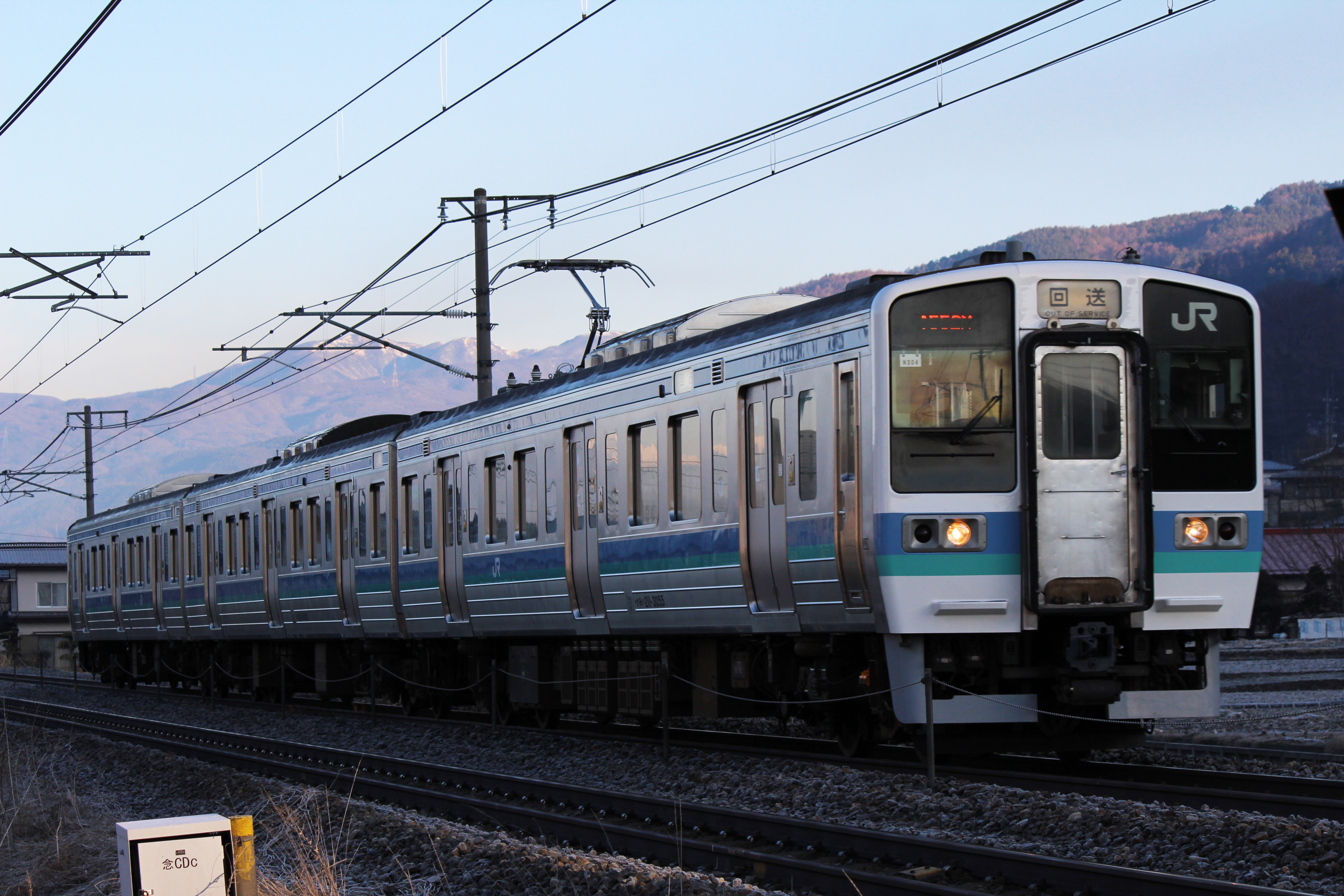 JR East 211-3000 series 3-car EMU set N304 in Nagano area livery on an empty transfer working